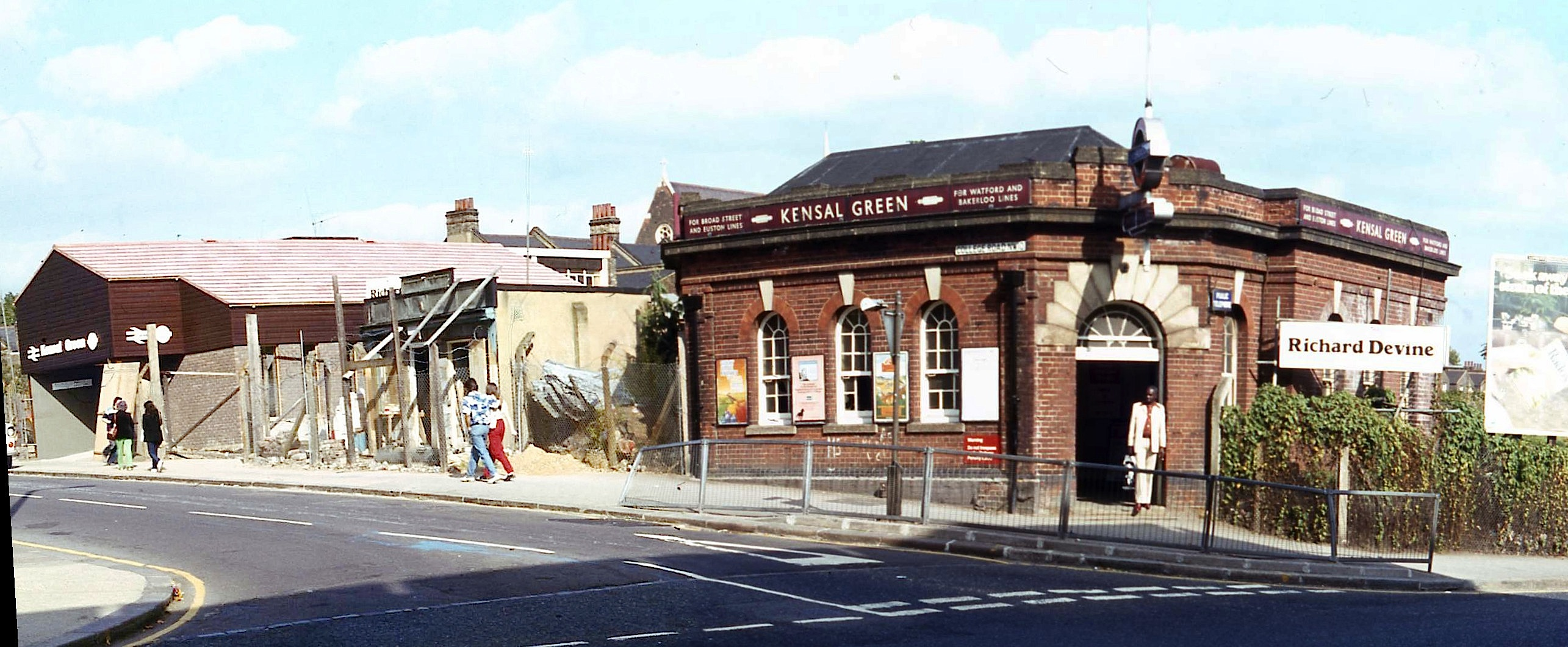 taken from Harrow Rd